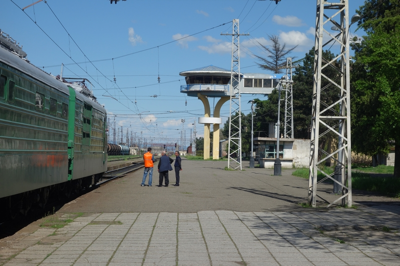 Khashuri Railway Station Control Tower